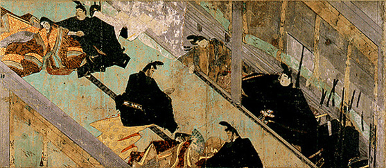 The Murasaki Shikibu Diary Emaki (紙本著色紫式部日記絵巻, shihonchoshoku Murasaki Shikibu nikki emaki). This is part of the handscroll located at the Gotoh Museum in Tokyo which consists of three illustrations and three pages of text. Color on paper. The scroll has been designated as National Treasure of Japan in the category paintings. 21.0cm x 48.4cm. Evening of Kankō 5, 11th month, 1st day (December 1, 1008): "Ika-no-iwai" of the Imperial Prince. Drunk and disarranged/confused/disordered court nobles are amused/frolicking/joking/flirting with court ladies. Various facial expressions and appearances giving a life-like impression.